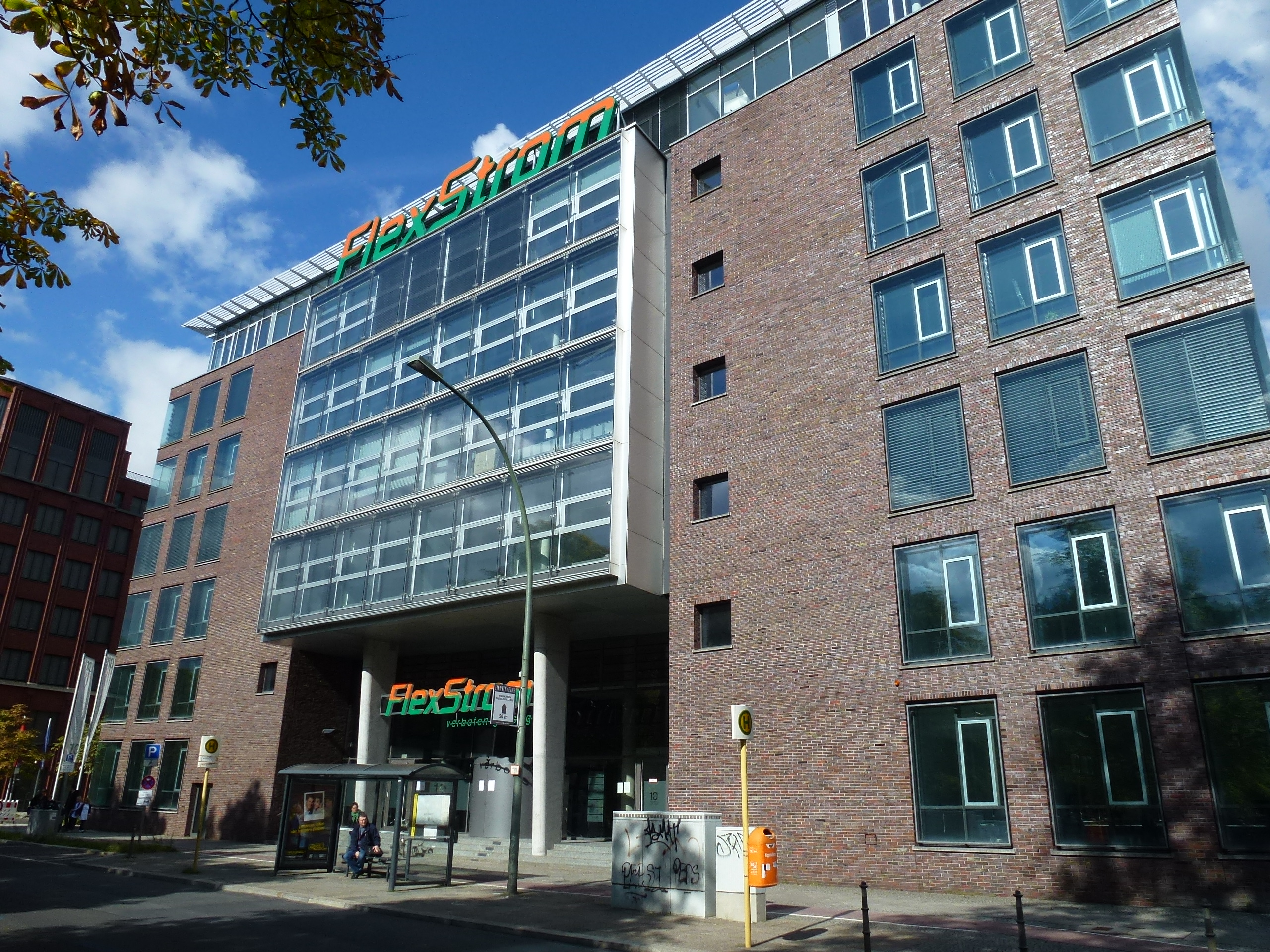 Berlin-Tiergarten Reichpietschufer FlexStrom